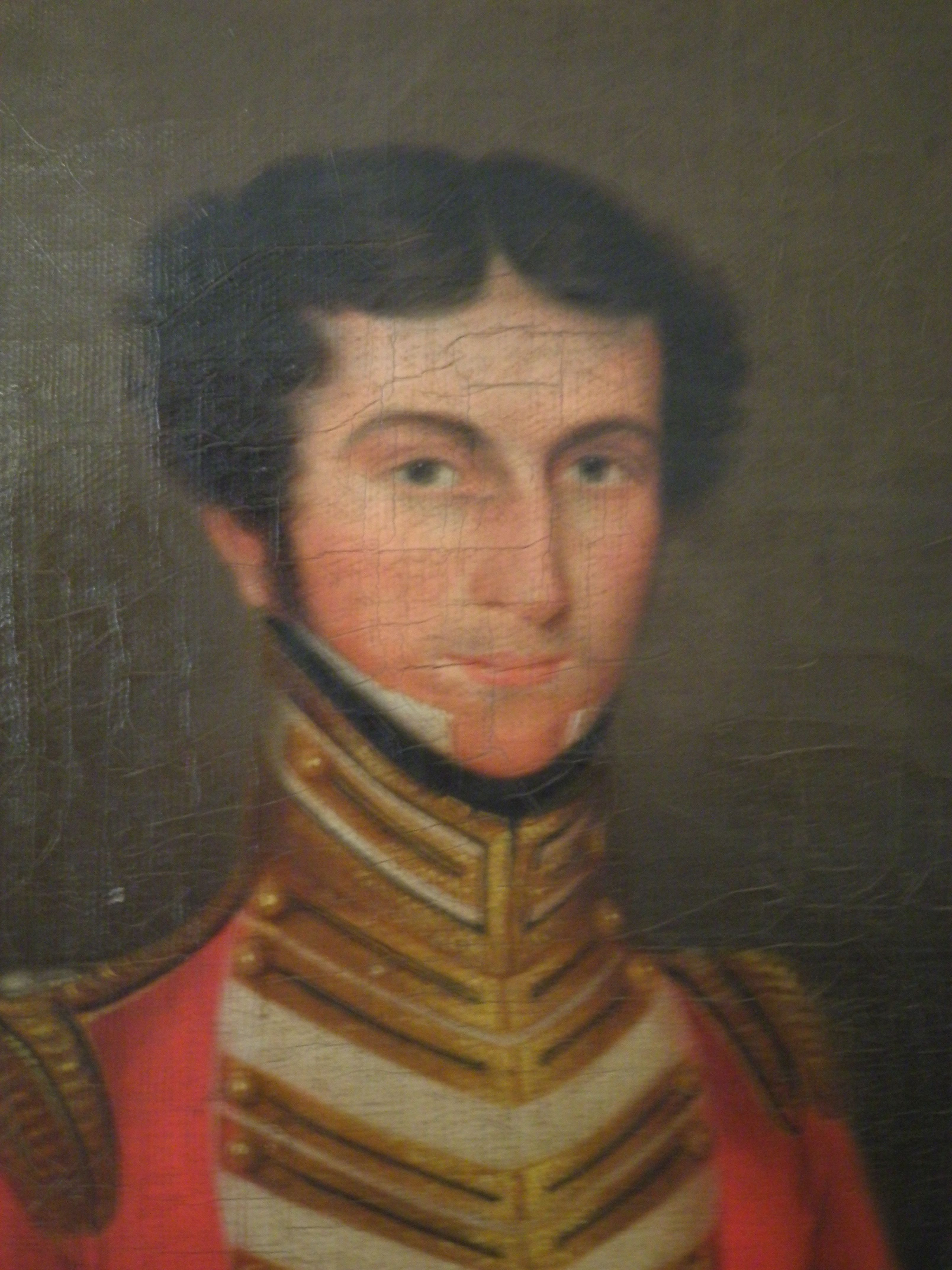 Oil portrait of Archibald Clunes Innes as a Captain, prior to becoming Major Innes. (Privately owned Portrait)